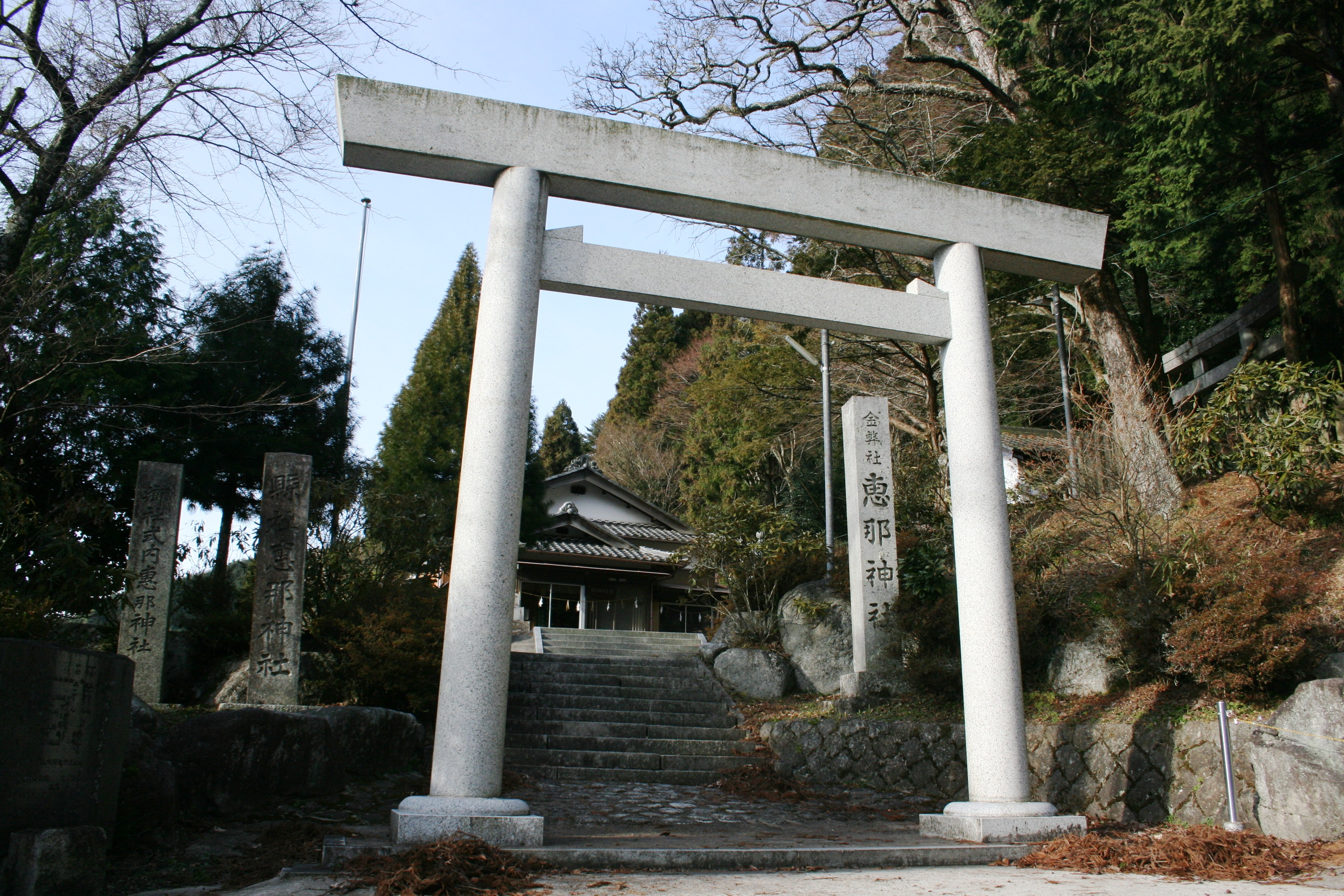 Torii of Ena Shrine